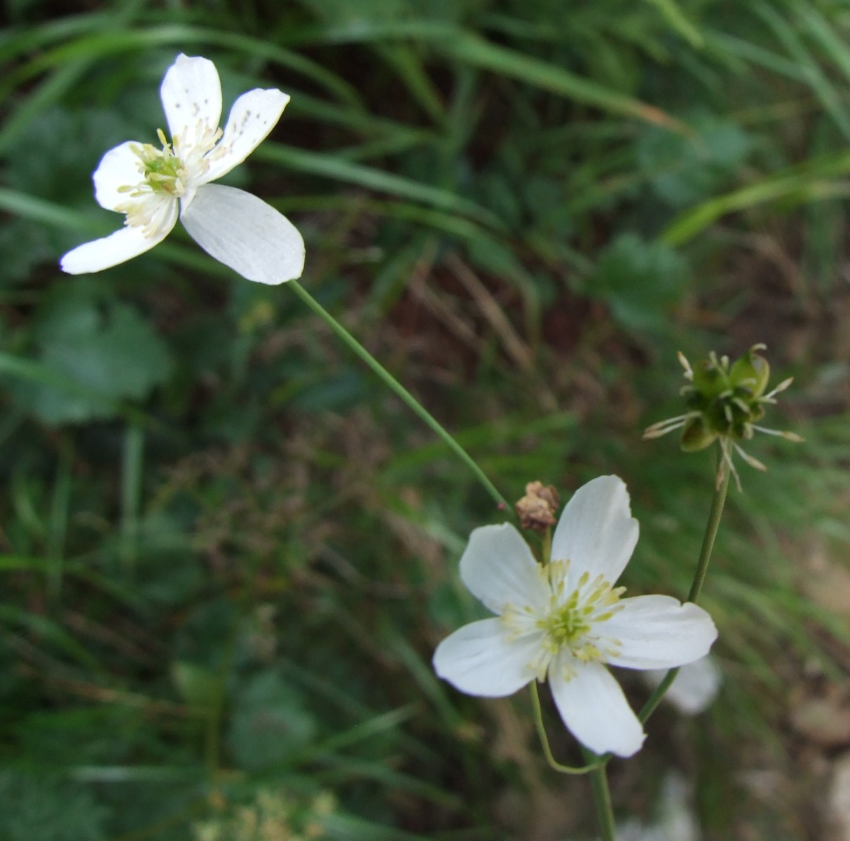 Ranunculus platanifolius (pl. jaskier platanolistny), habitat: Spalona Dolina, West Tatra Mountains)